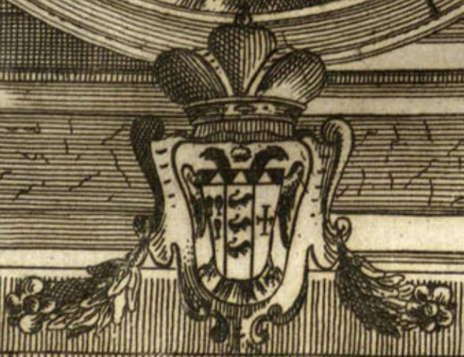 Variant of the Attributed Coat of Arms of Frederick II, Holy Roman Emperor (Historia della Città e Regno di Napoli)